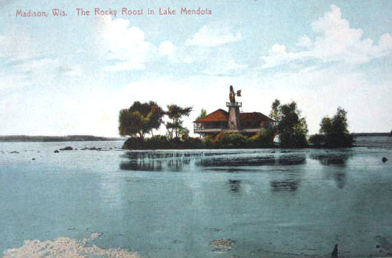 Rocky Roost lakehouse by Frank Lloyd Wright